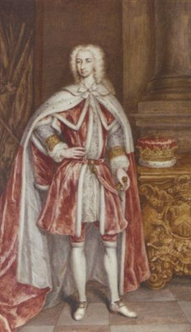 Portrait in pencil and watercolour, of Edmund Sheffield, 2nd Duke of Buckingham and Normanby (1716–1735).